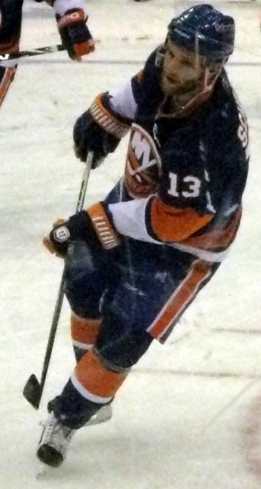 Rob Schremp in warm-ups before the New York Islanders vs. Carolina Hurricanes - February 6, 2010